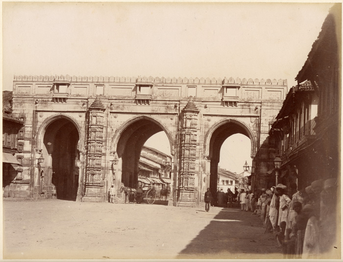 "Manik Chok," an albumen photo almost certainly by Charles Lickfold, 1880's